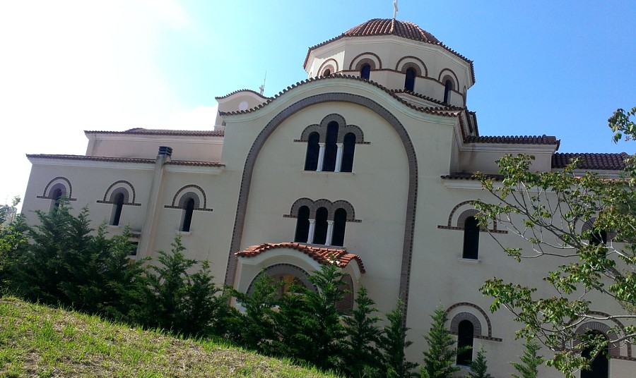 lykovrysi